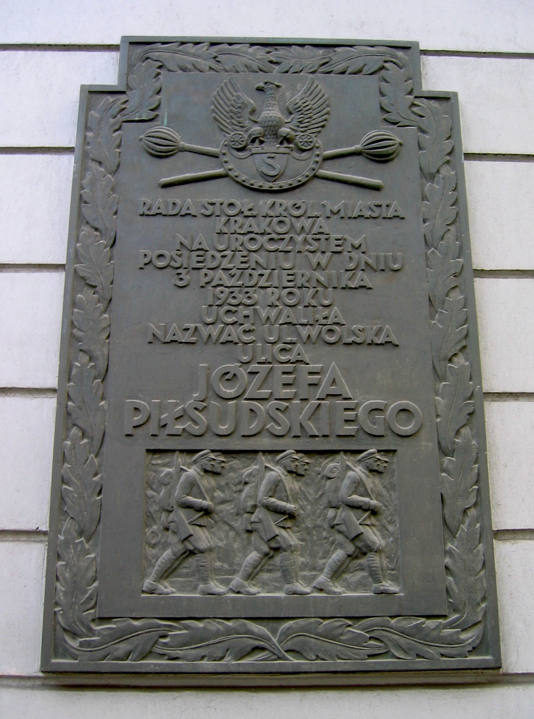 Kraków, memorial plaque commemorating the renaming Wolska St. to Piłsudski St. in 1933